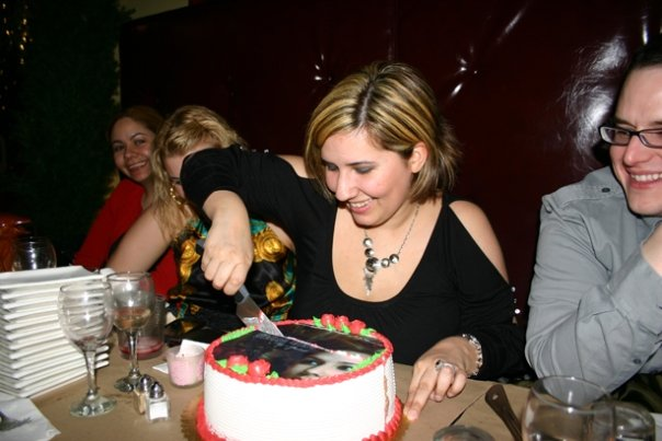 Photograph taken by myself.